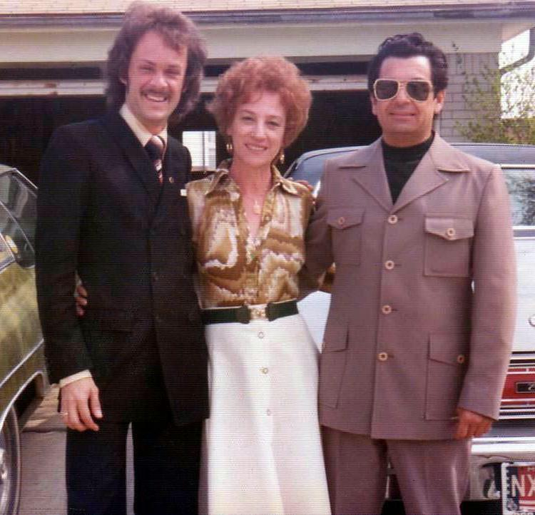 Lars Jacob with Steve Vigil's parents Iris Bianco Vigil & Amos E. Vigil, as released by image creator Lars Jacob ProdPlace: 13750 Beth Drive, Warren, Michigan